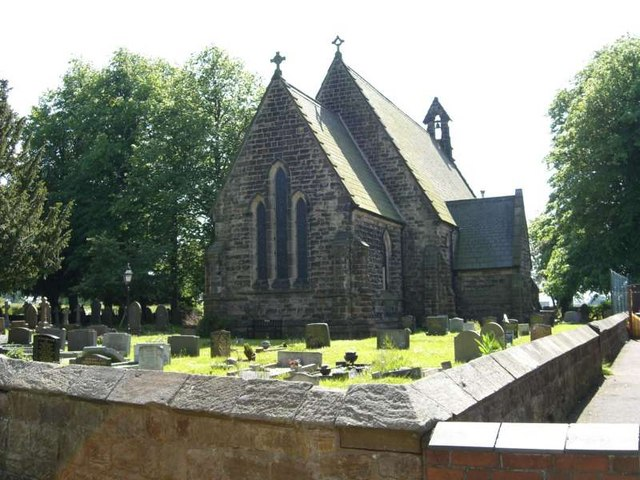 Parish church of St John the Baptist, Smallwood, Cheshire, seen from the northeast